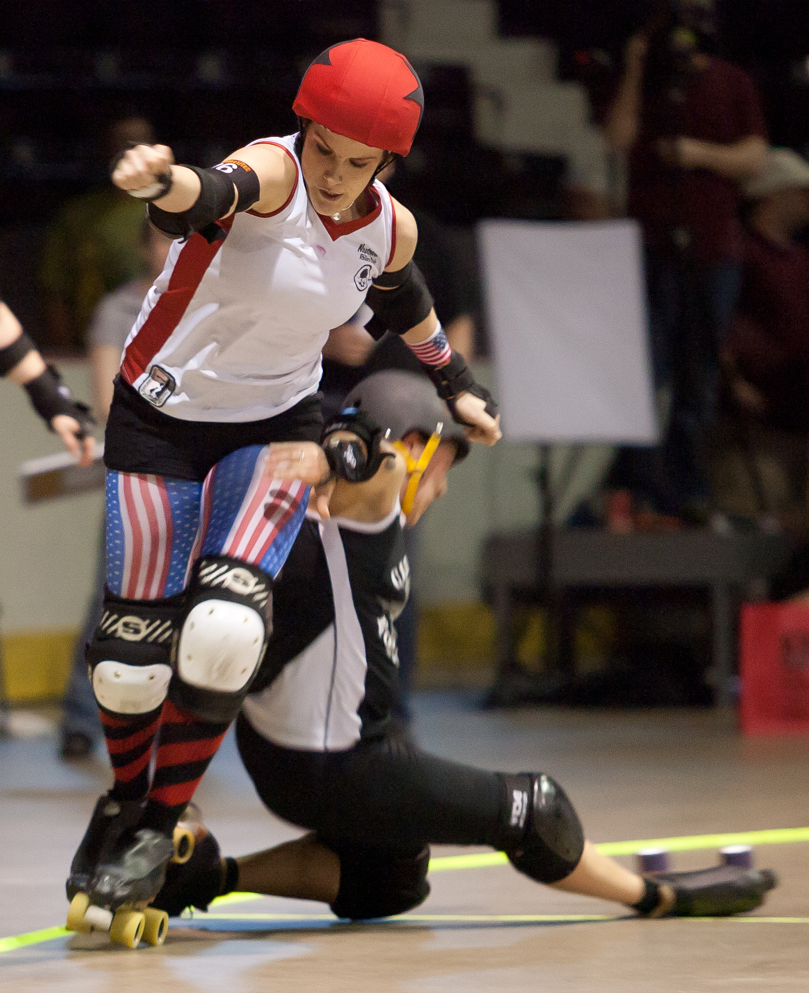 Naptown Roller Girls jammer and a Cincinnati Rollergirls blocker. Photo credit photographer Tom Klubens.